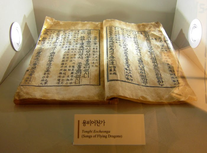 Copy of Yongbieocheonga displayed at the Sejong Story exhibition hall in Gwanghwamun, Seoul.